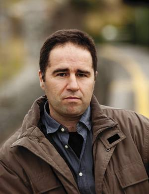 Imanol Murua Uria, basque journalist.